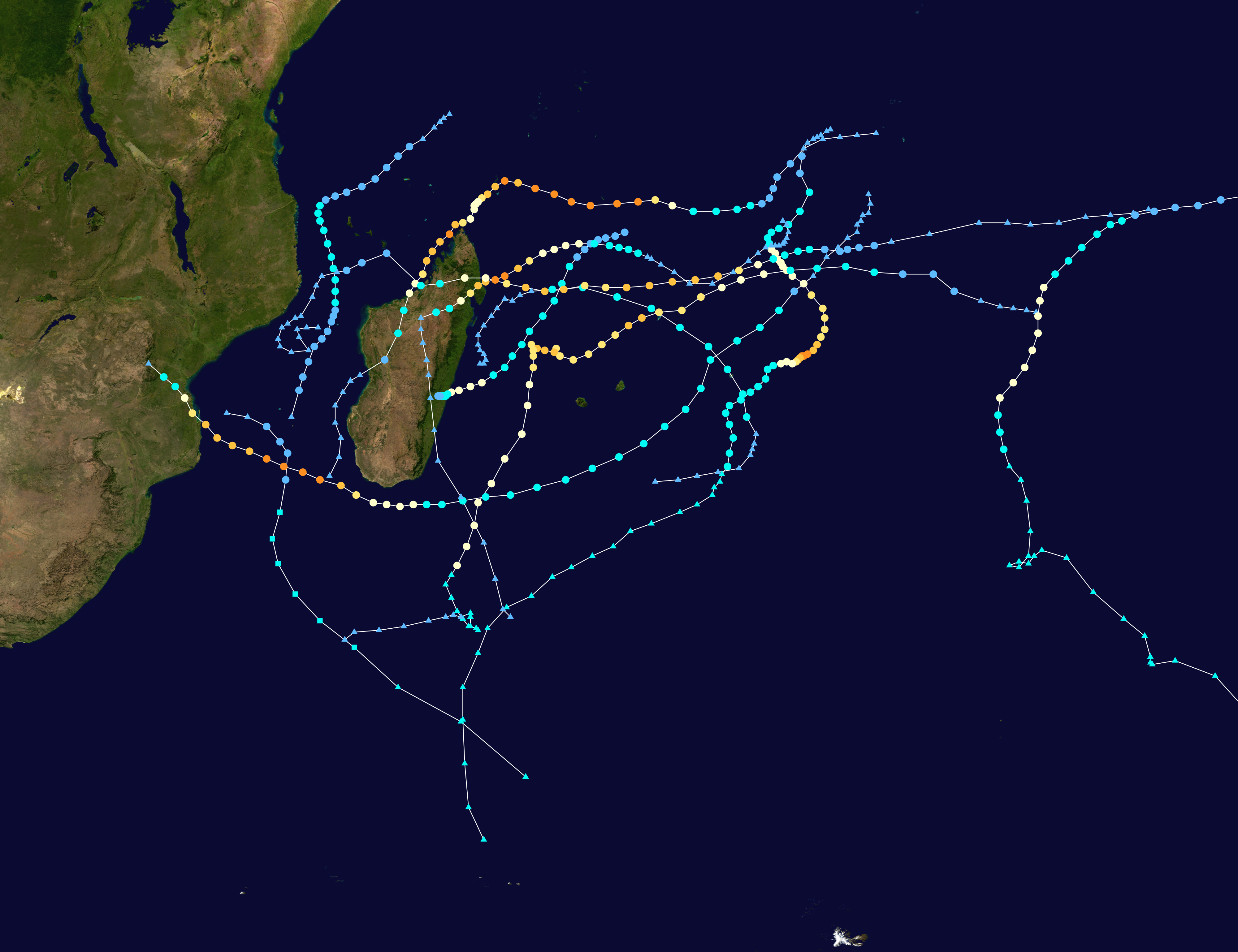 This map shows the tracks of all tropical cyclones in the 2006-07 South-West Indian Ocean cyclone season. The points show the location of each storm at 6-hour intervals. The colour represents the storm's maximum sustained wind speeds as classified in the Saffir-Simpson Hurricane Scale (see below), and the shape of the data points represent the type of the storm. Saffir–Simpson scale Tropical depression≤38 mph≤62 km/h Category 3111–129 mph178–208 km/h Tropical storm39–73 mph63–118 km/h Category 4130–156 mph209–251 km/h Category 174–95 mph119–153 km/h Category 5≥157 mph≥252 km/h Category 296–110 mph154–177 km/h Unknown Storm type Tropical cyclone Subtropical cyclone Extratropical cyclone / Remnant low / Tropical disturbance / Monsoon depression